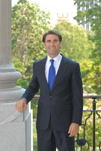 Andre Bauer